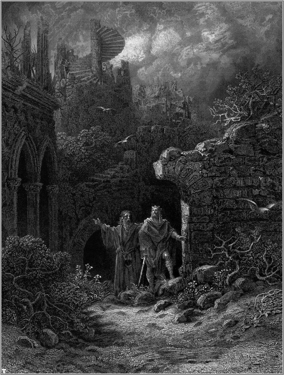 Plate I. "Yniol Shows Prince Geraint His Ruined Castle"